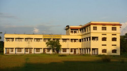 Image of mechi multiple campus